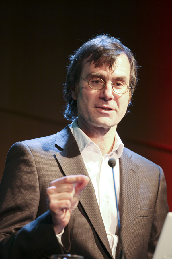 Portrait of German science writer Stefan Klein